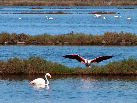 Phoenicopterus roseus in the 'Saline' of the Sardinian Island of Carloforte